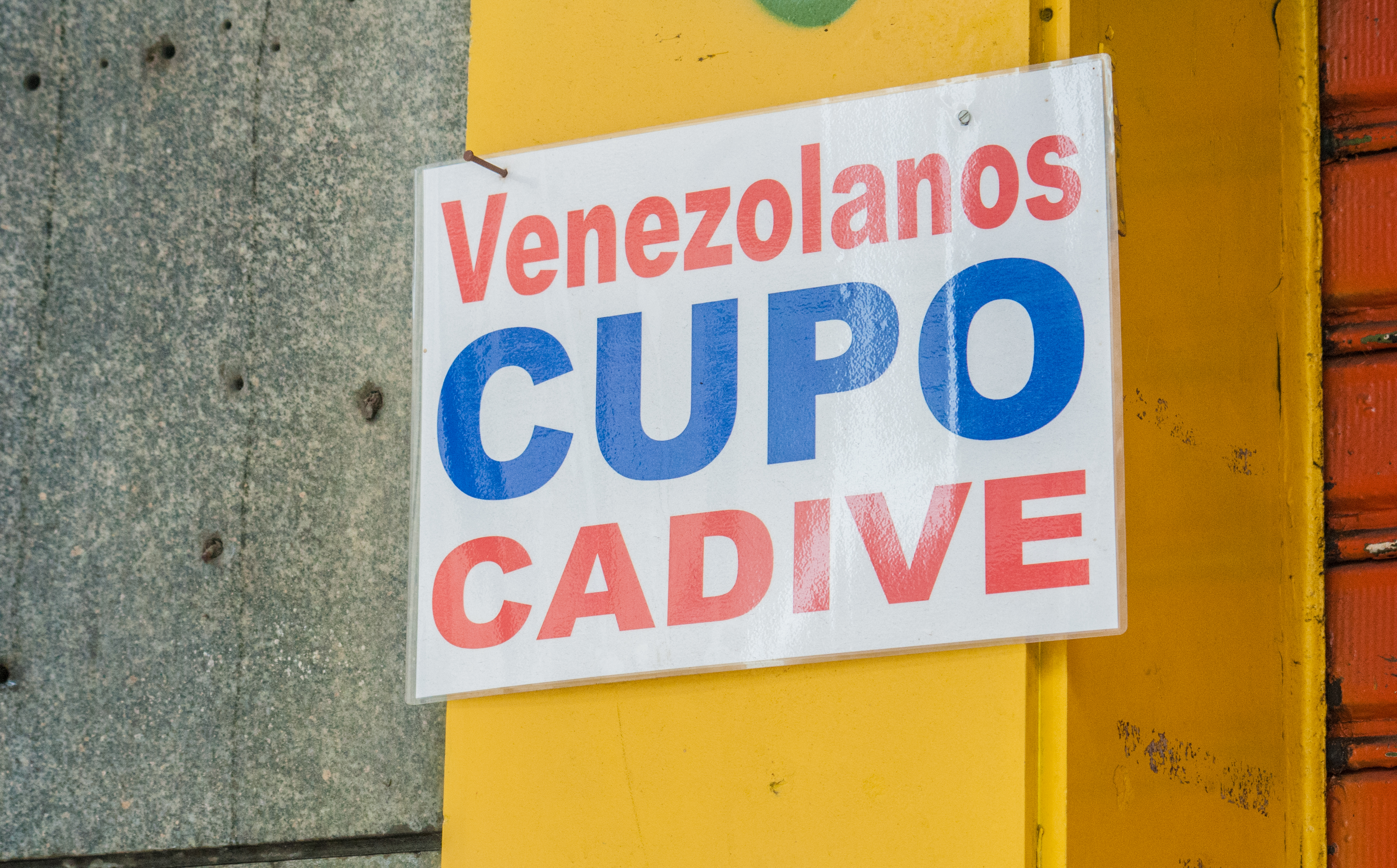 Cadivi sign in São Paulo